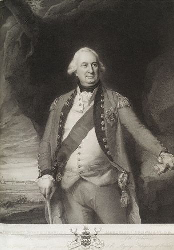 "Charles Cornwallis, 1st Marquess Cornwallis," stipple engraving, by Benjamin Smith, published by John Boydell, after John Singleton Copley. Courtesy of the National Portrait Gallery, London.